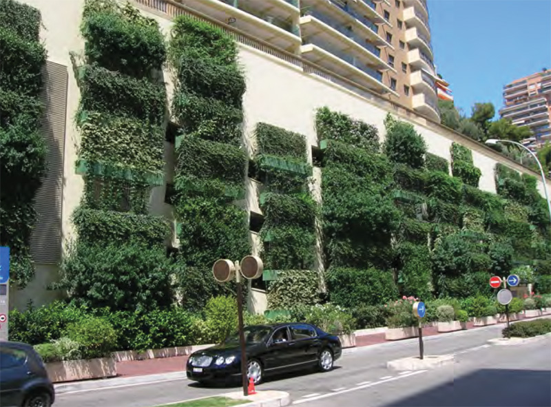 A vertical garden ystem in Monaco